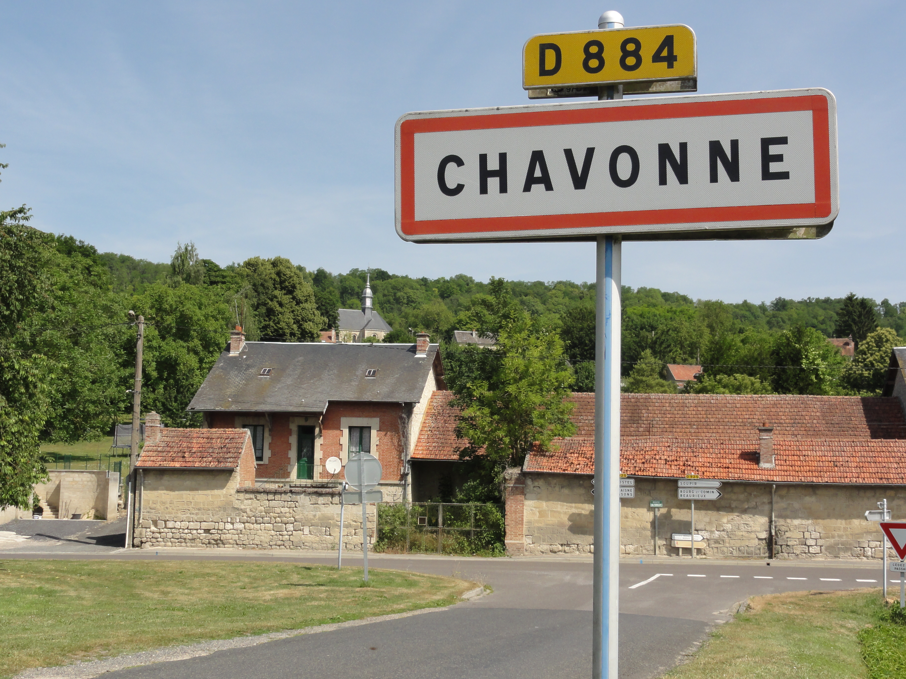 Chavonne (Aisne) city limit sign